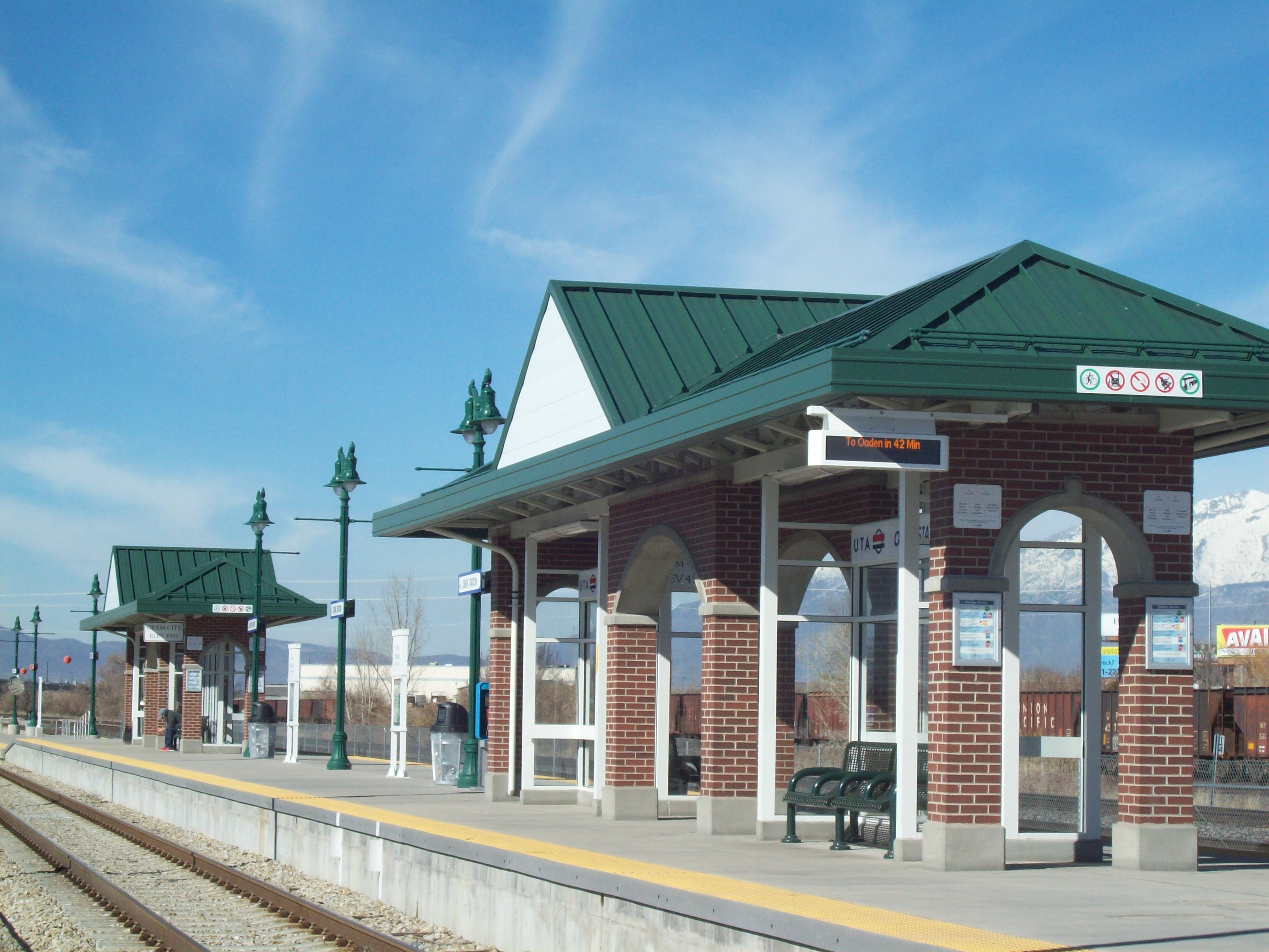 Passenger platform at the Orem Station